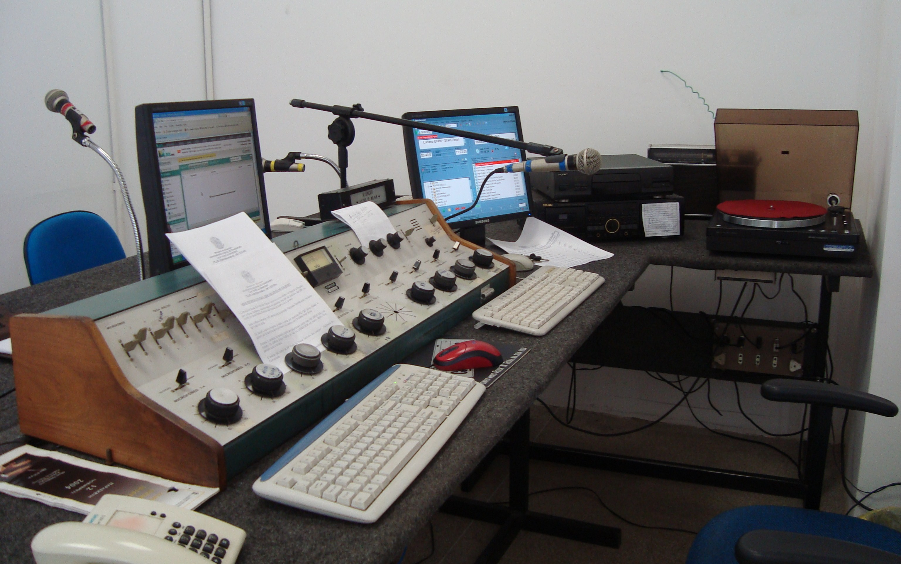 ZYL-242 broadcast radio studio in Itajuba, Minas Gerais, Brazil